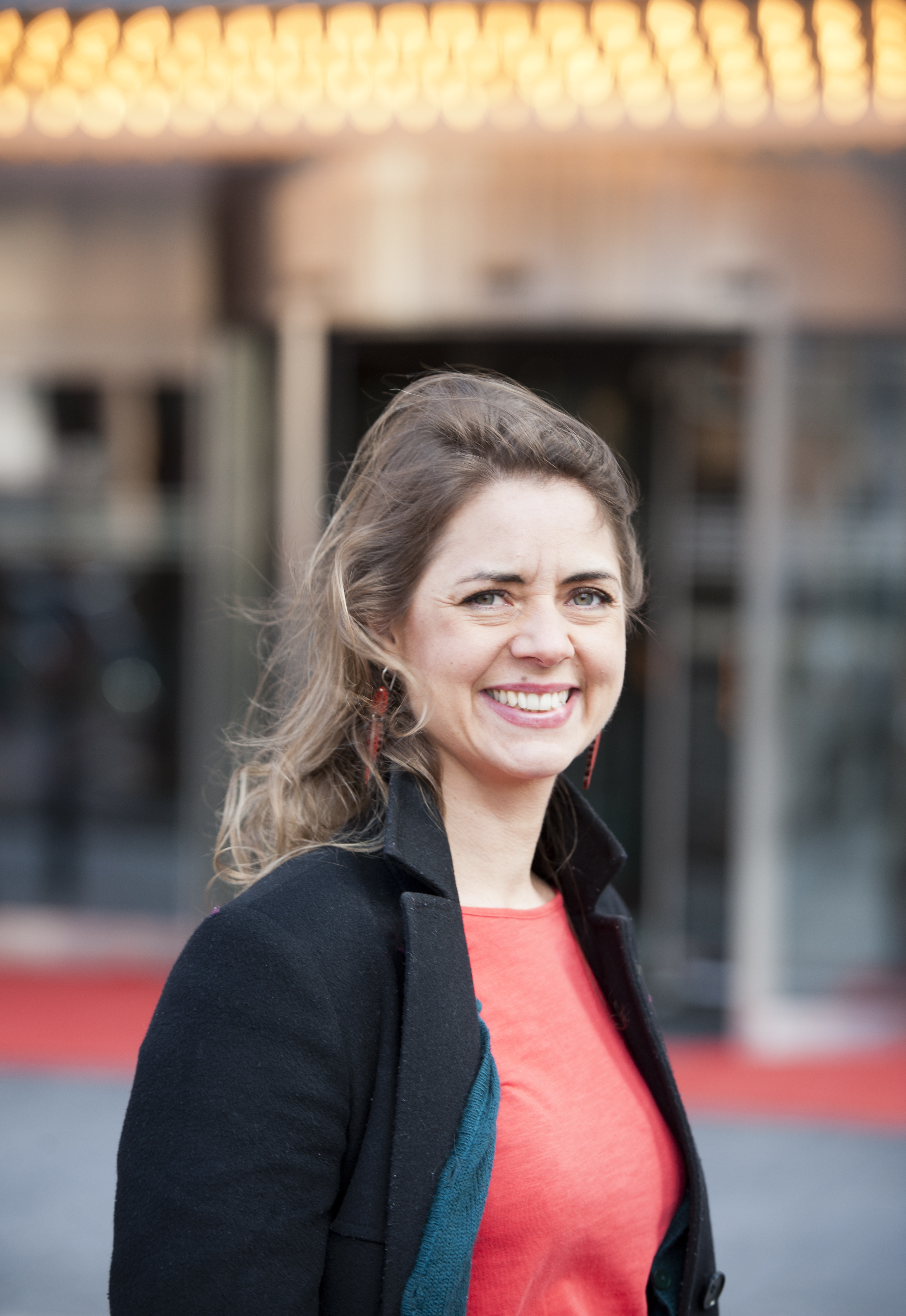 Rebecca Forsberg